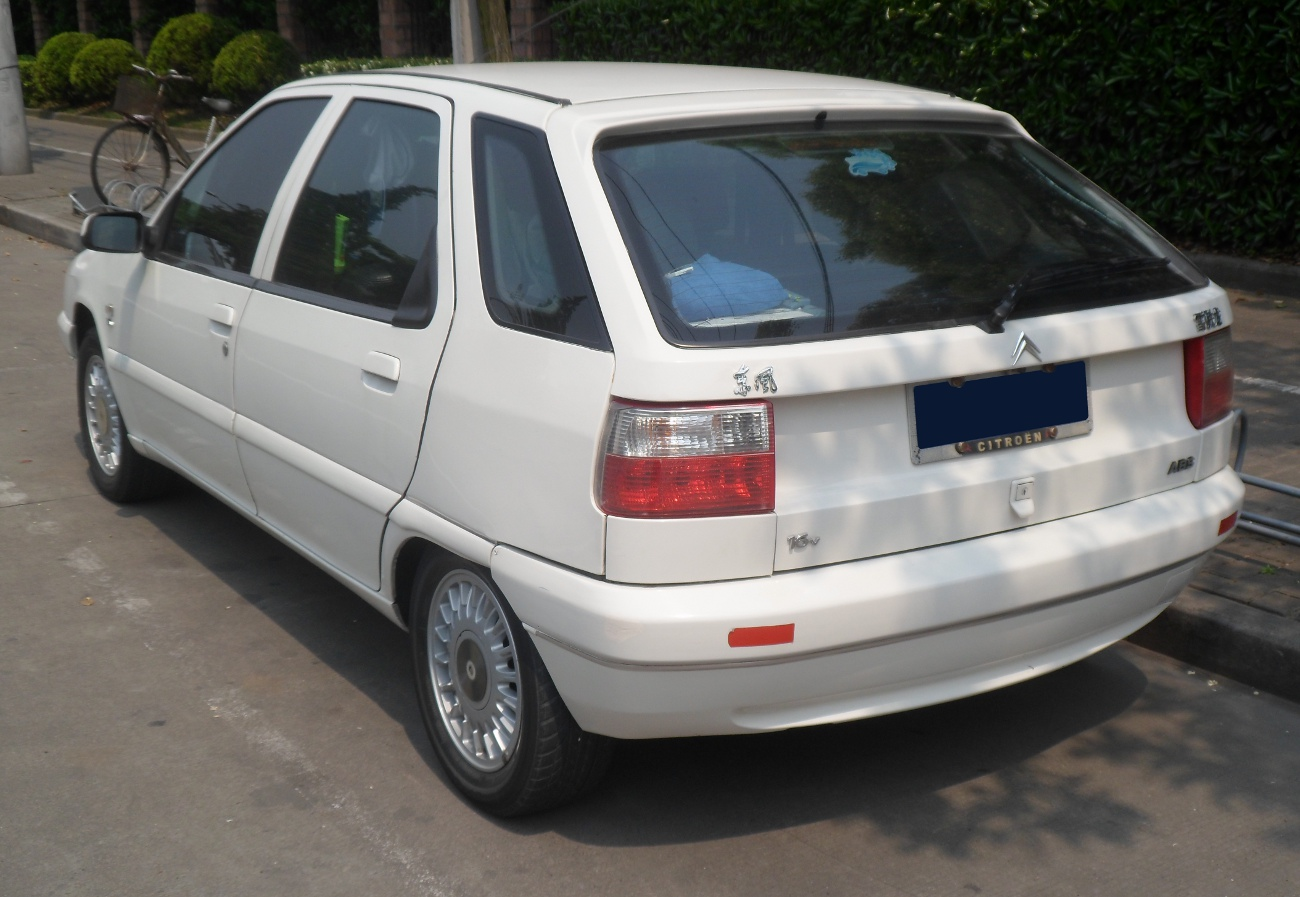 Citroën Fukang hatch photographed in Shanghai, China.